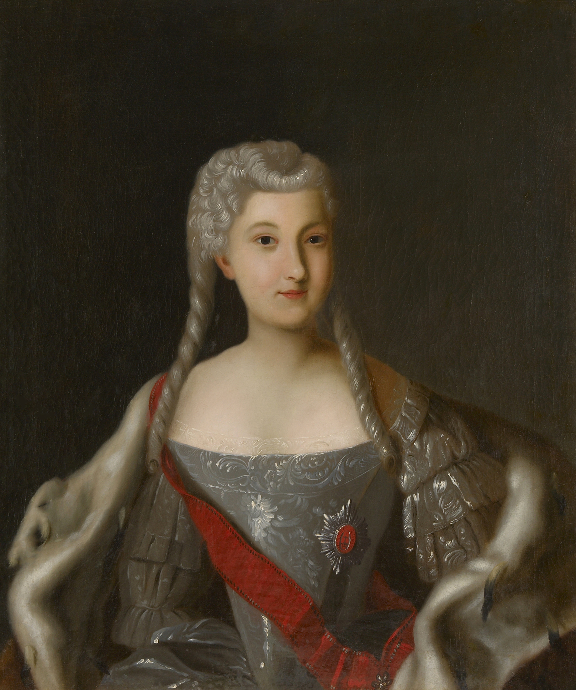 Anna Leopoldovna (1718-1746), Duchess of Brunswick-Wolfenbüttel (1739), Grand Duchess and Regent of Russia (1740-1741)